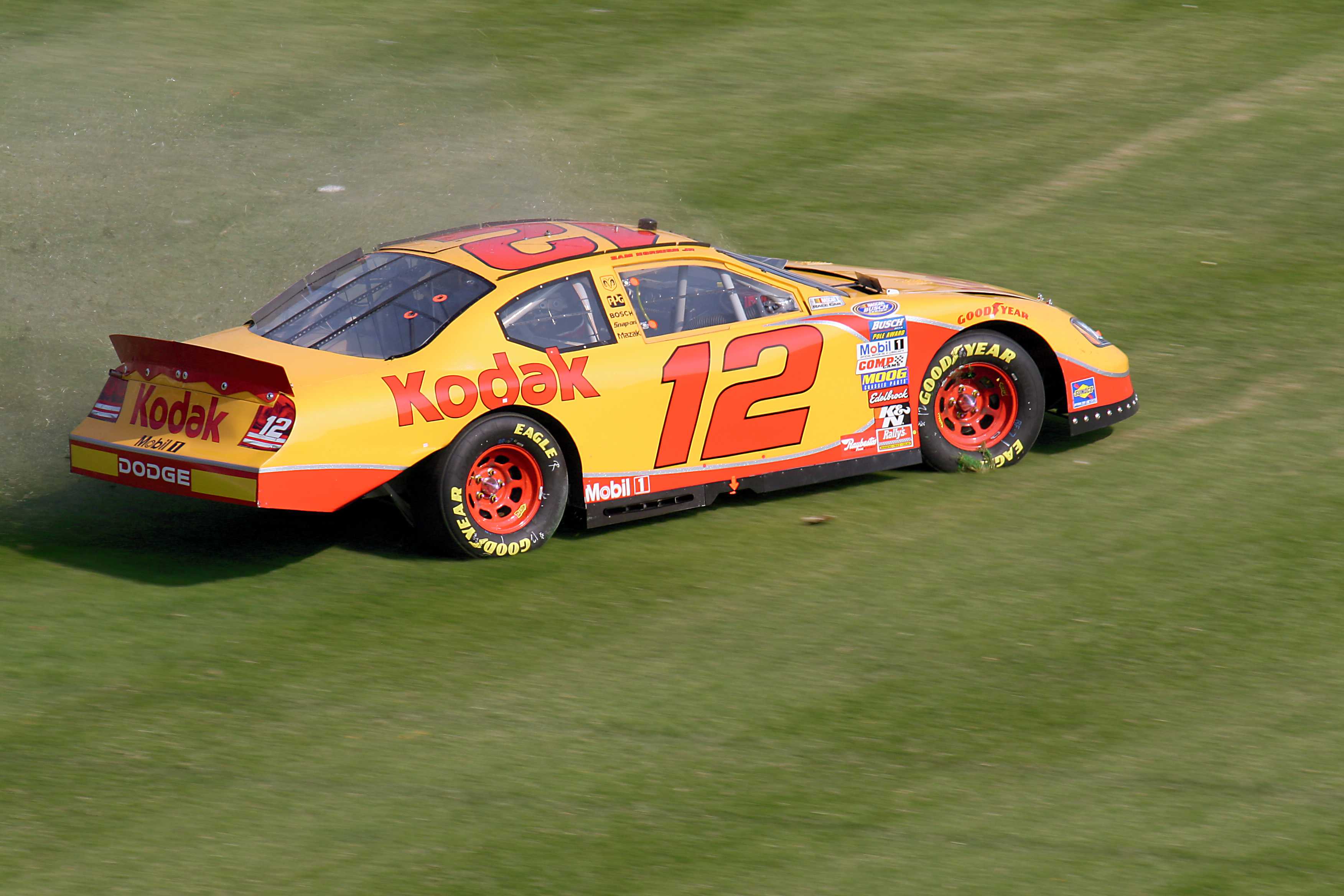 Former open wheel driver Sam Hornish, Jr. in a NASCAR Busch Series car in 2007Sam Spins